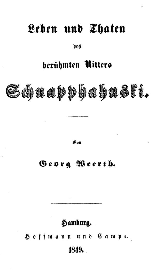 This is a scan of the historical document: Leben und Thaten des berühmten Ritters Schnapphahnski